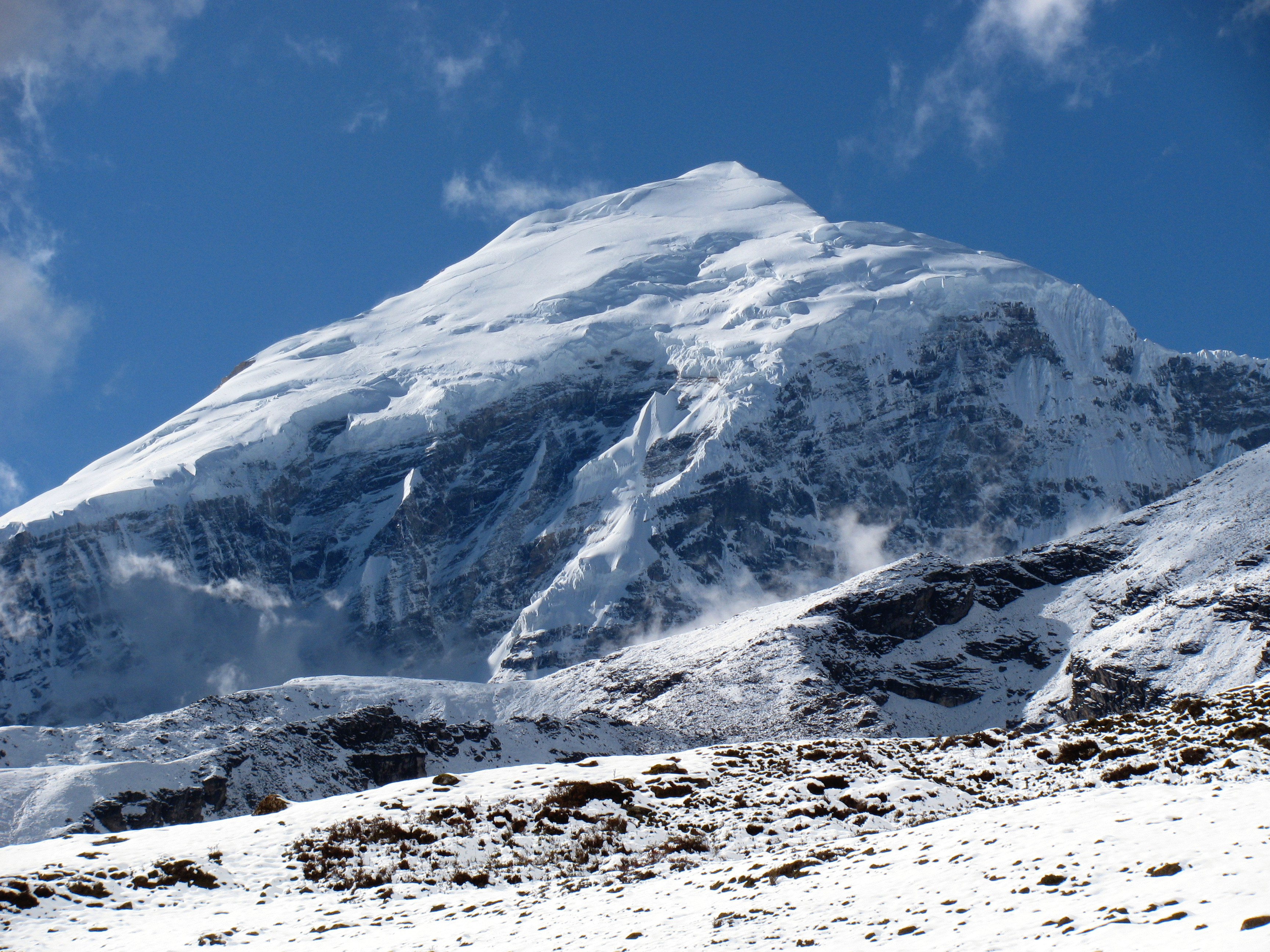 Mt Jomolhari viewed from just below Neleyla pass (Jangothang side) in Bhutan